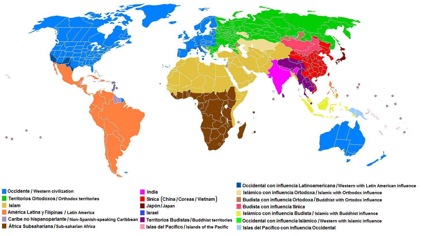 Cultural zones of the World